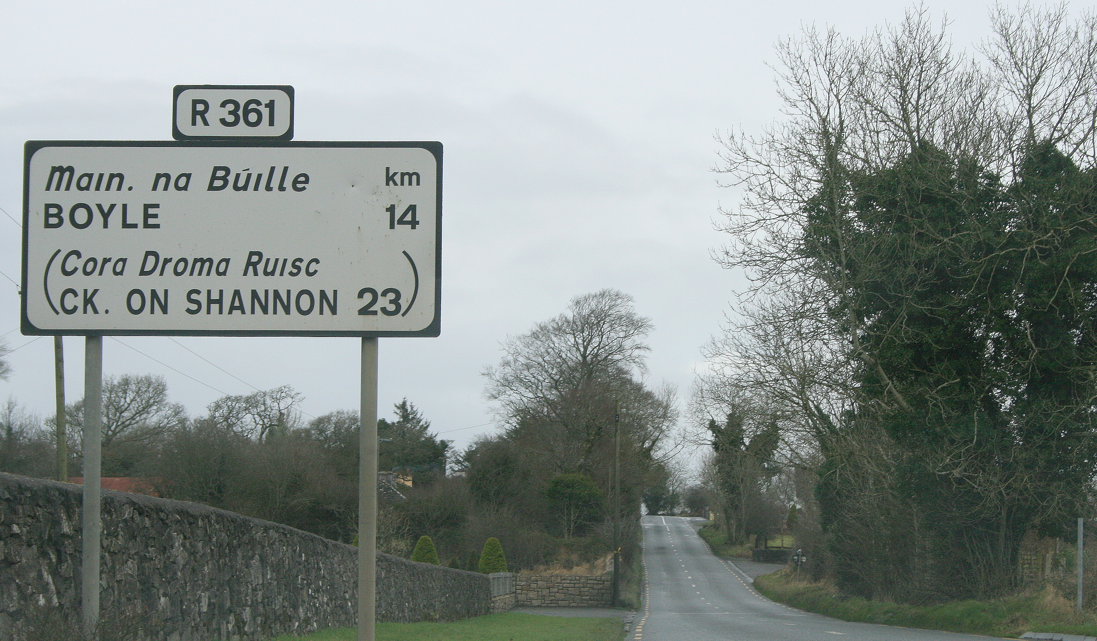 Frenchpark